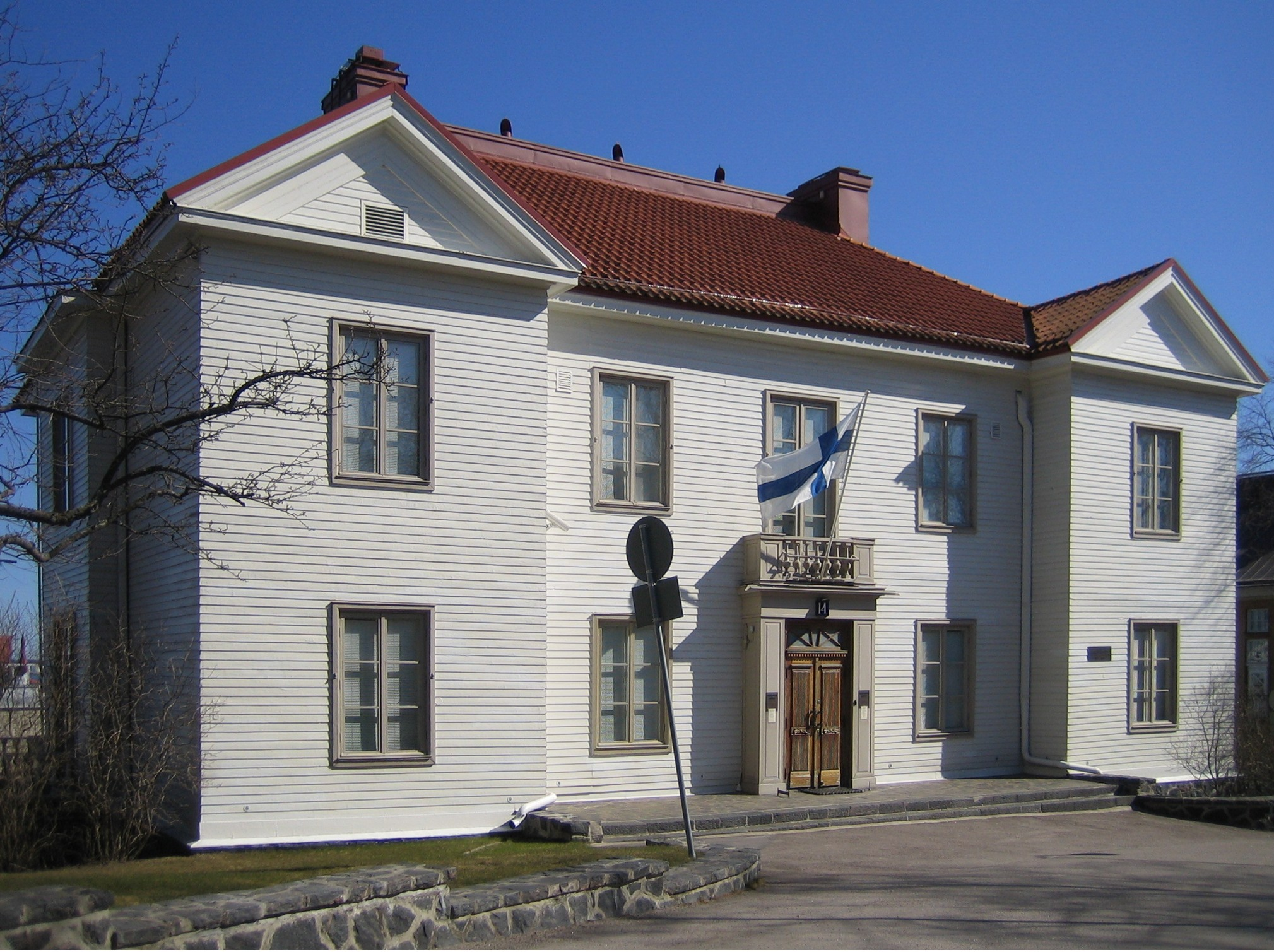 The Mannerheim Museum, Kalliolinnantie 14, Helsinki, Finland. Home of Carl Gustaf Emil Mannerheim. Designed by architect August Boman and built in 1874. Little remains of the original appearance of the villa.